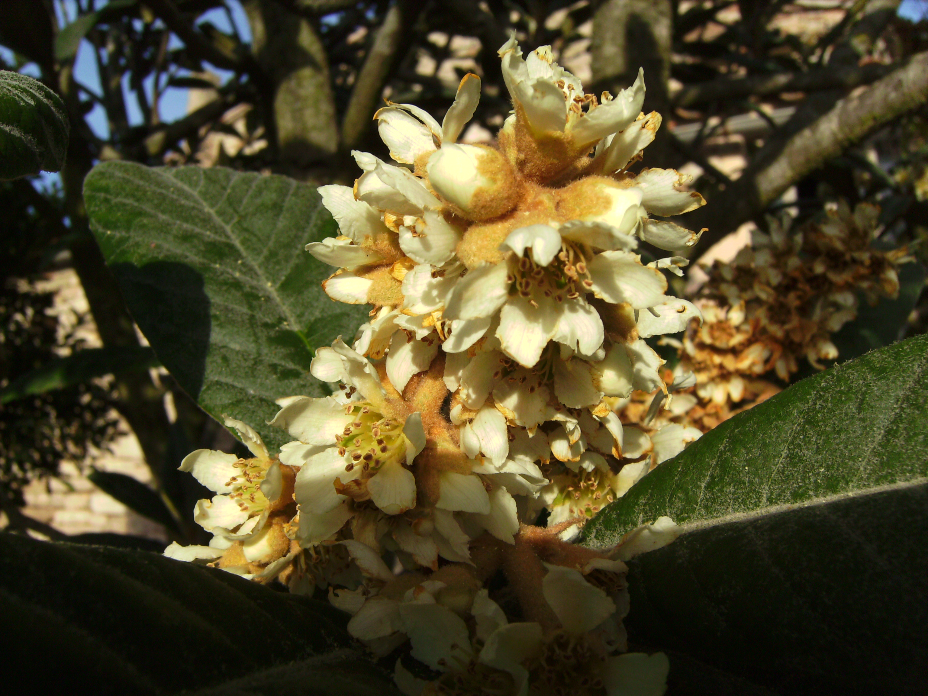 Eriobotrya japonica flowering, november 21, Catalonia 840 m altitude